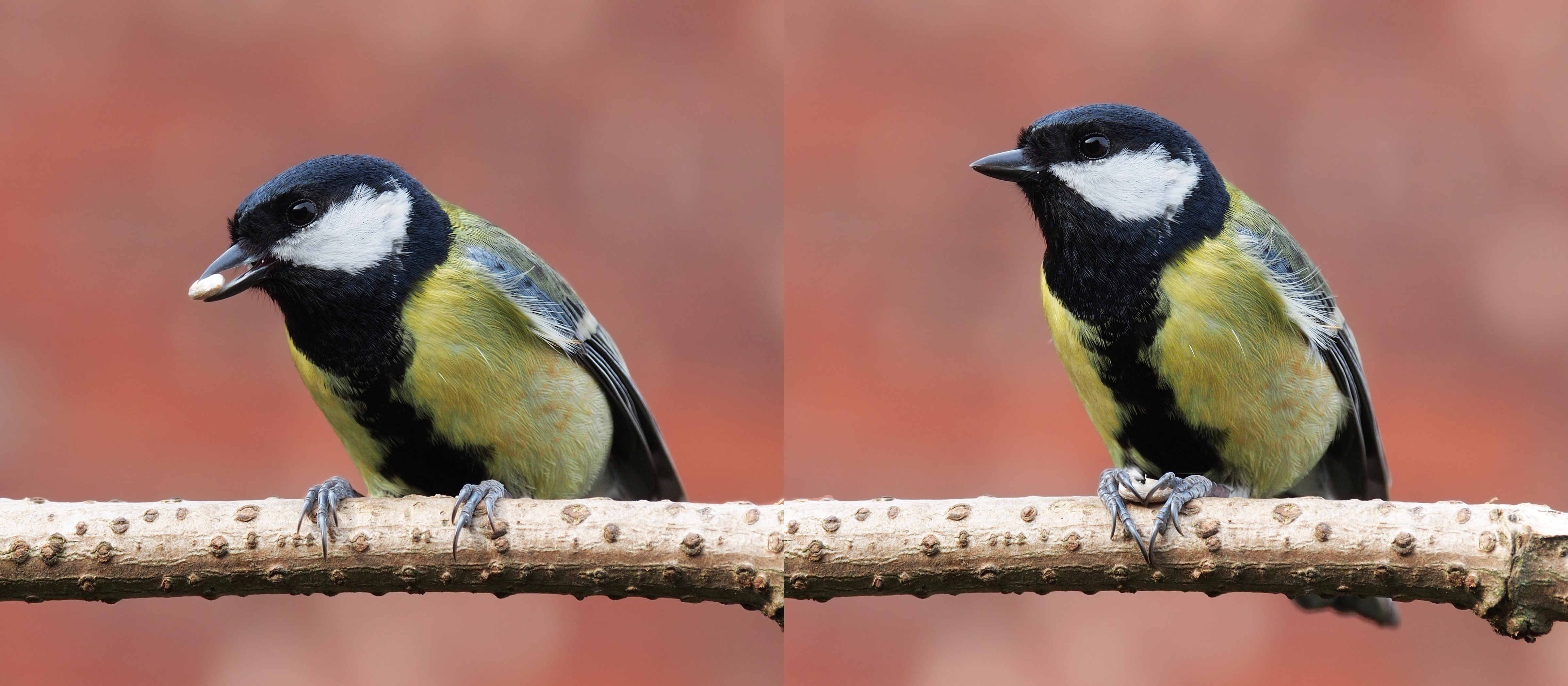 Great tit, Parus major, with sunflower seed. Side-by-side comparison of holding in beak, and transferred to feet